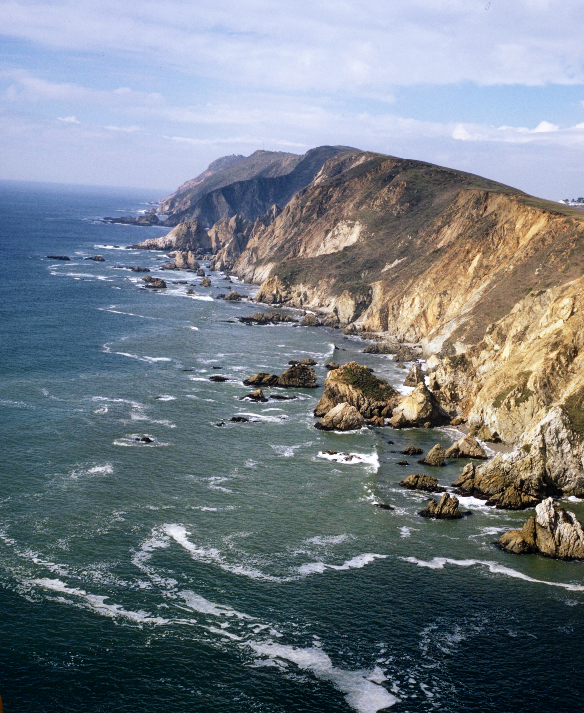 From its thunderous ocean breakers crashing against rocky headlands and expansive sand beaches through its open grasslands to its brushy hillsides and forested ridges, visitors can discover over 1000 species of plants and animals. Home to several cultures over thousands of years, Point Reyes preserves a tapestry of stories and interactions of people. Point Reyes awaits your exploration.